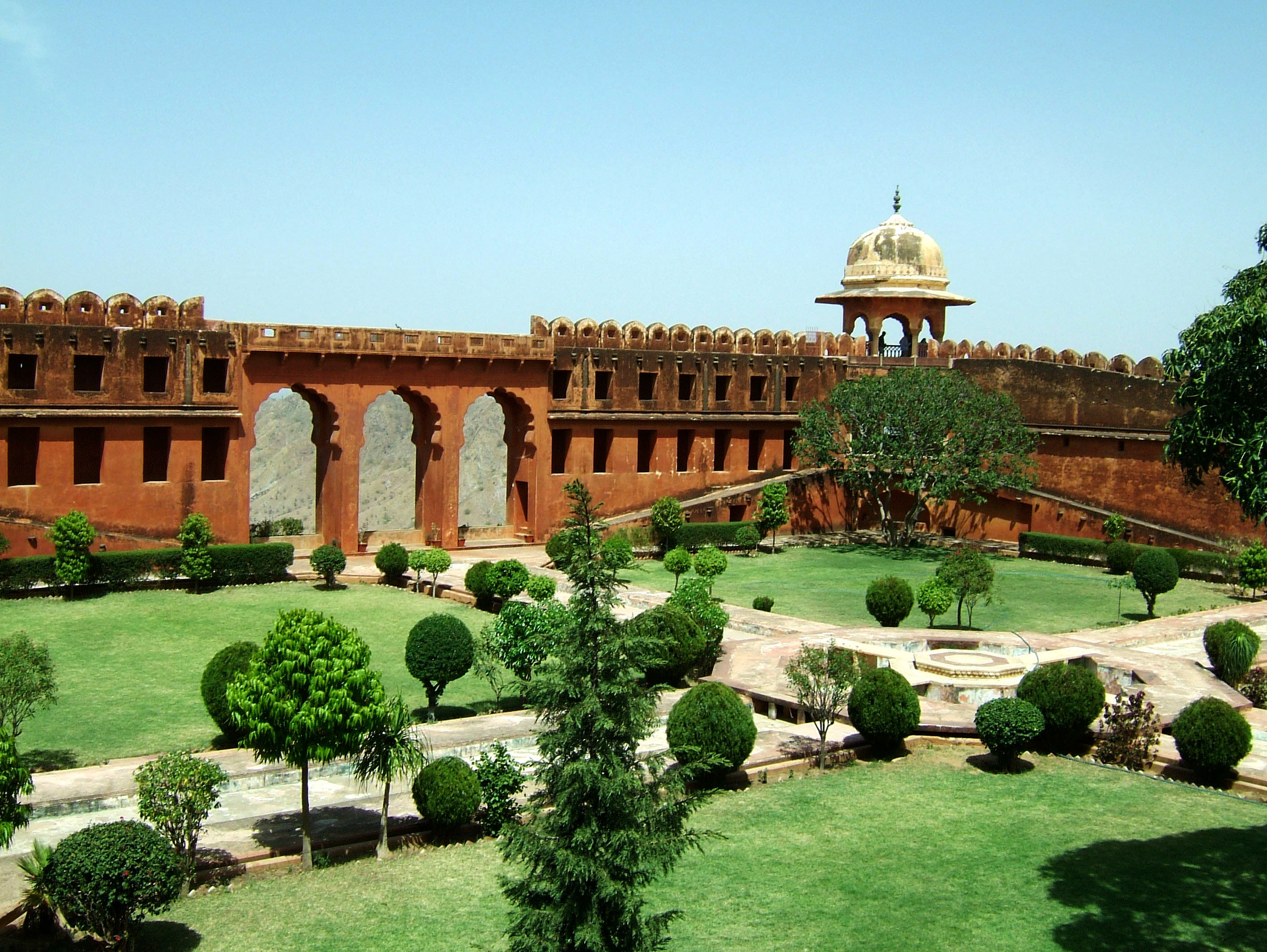 Jaigarh Fort compound Jaipur, Rajasthan